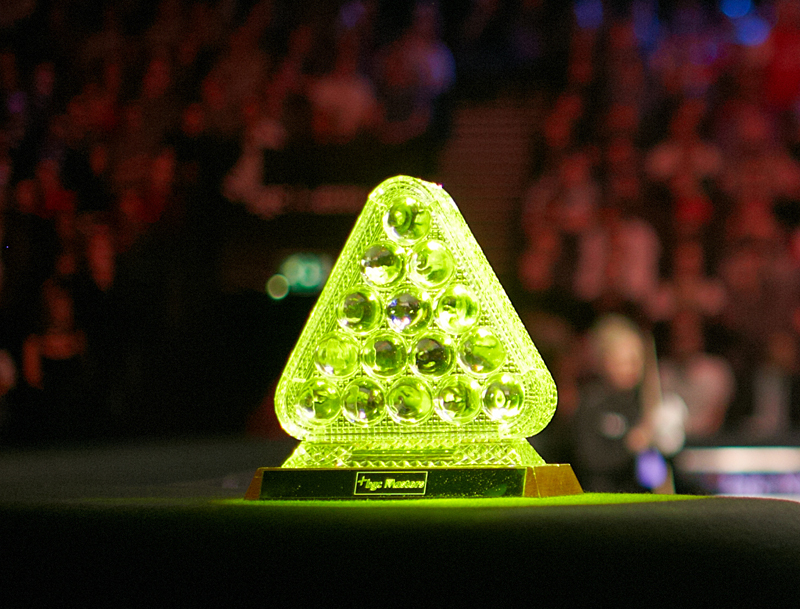 Snooker Masters trophy